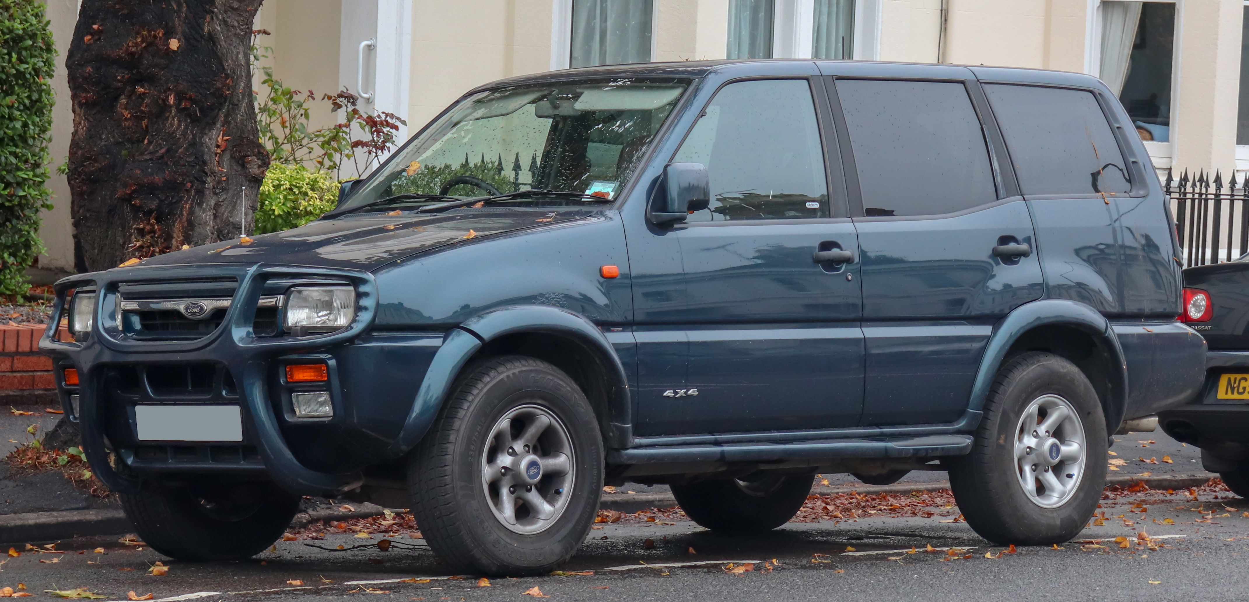 1996 Ford Maverick GLX LWB 2.7 Front Taken in Leamington Spa